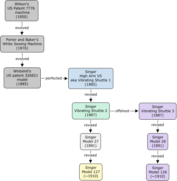 Evolution of Singer's model 27 series sewing machines